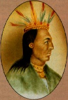 Portrait of AQUIMINZAQUE, a indean ruler of muisca.